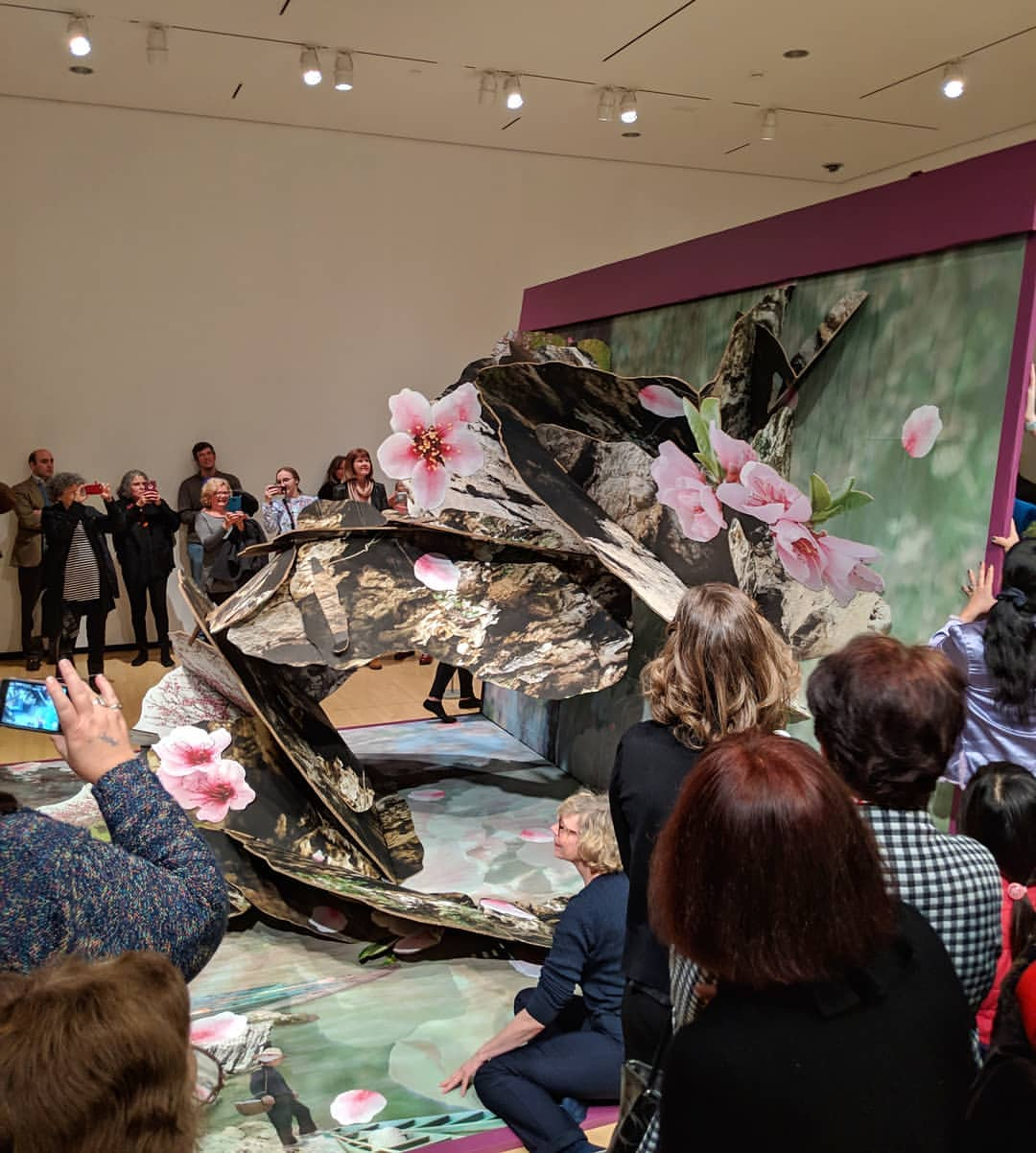 World's largest pop-up book ta Taubman Museum